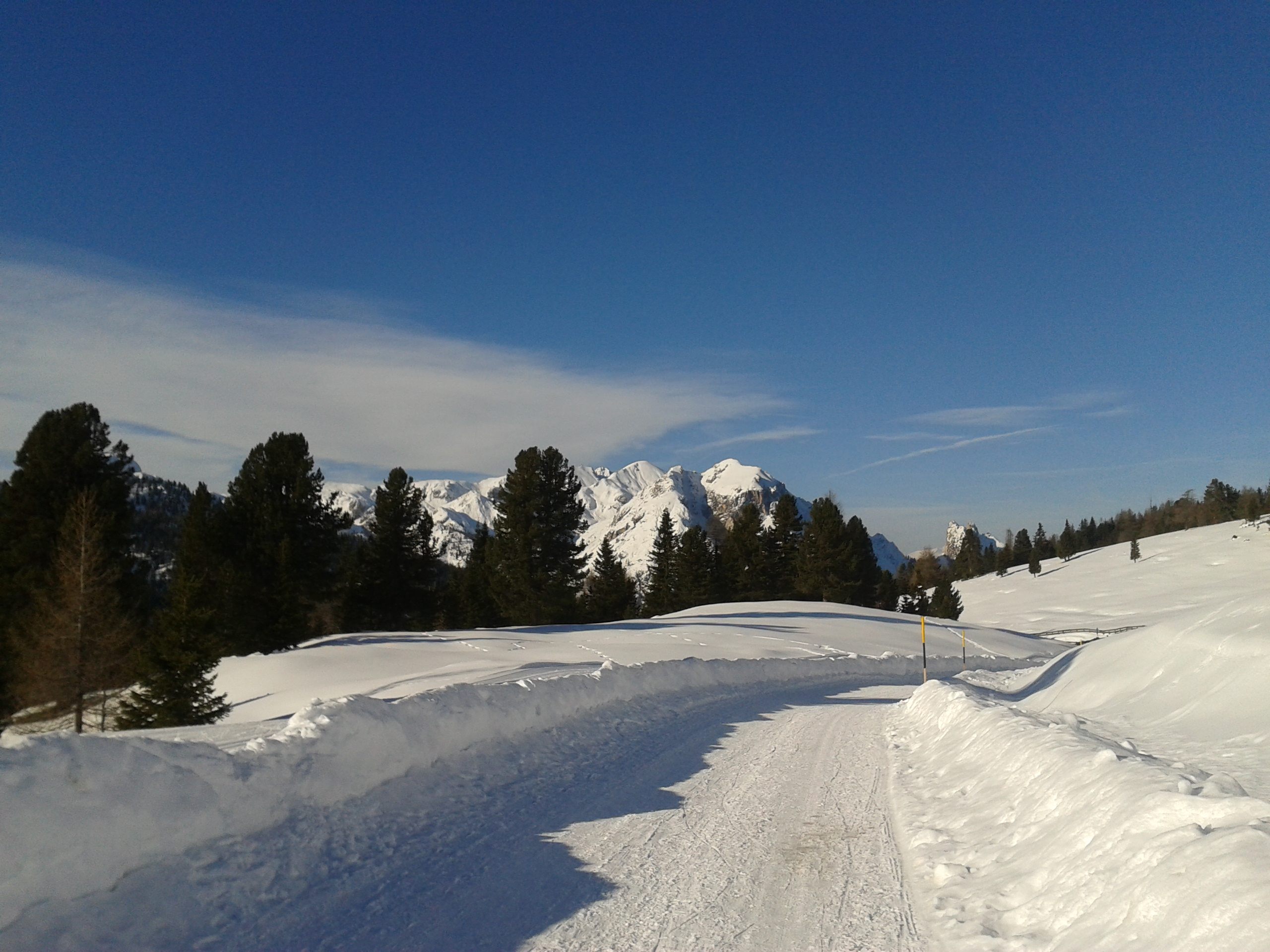 Prato piazza paesaggio invernale